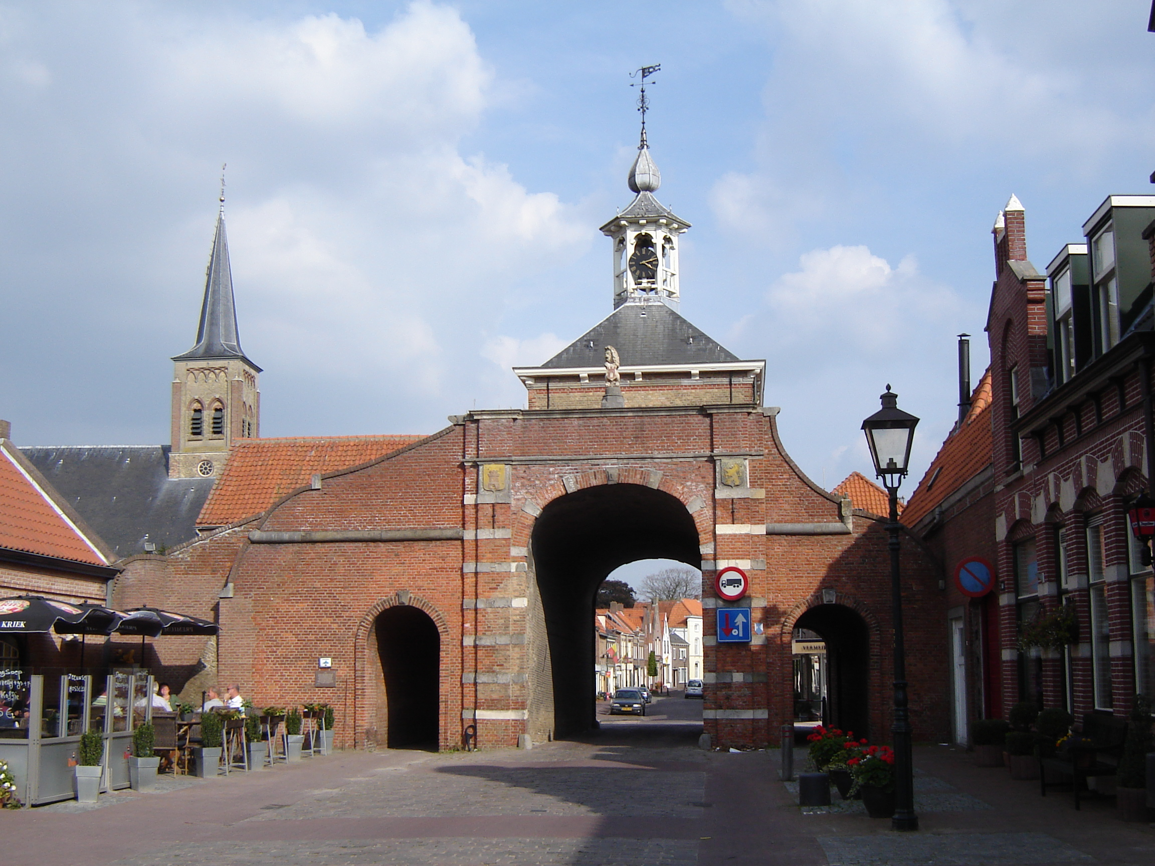 Westpoort gate in Aardenburg. Aardenburg, Sluis, Zeeland, Netherlands